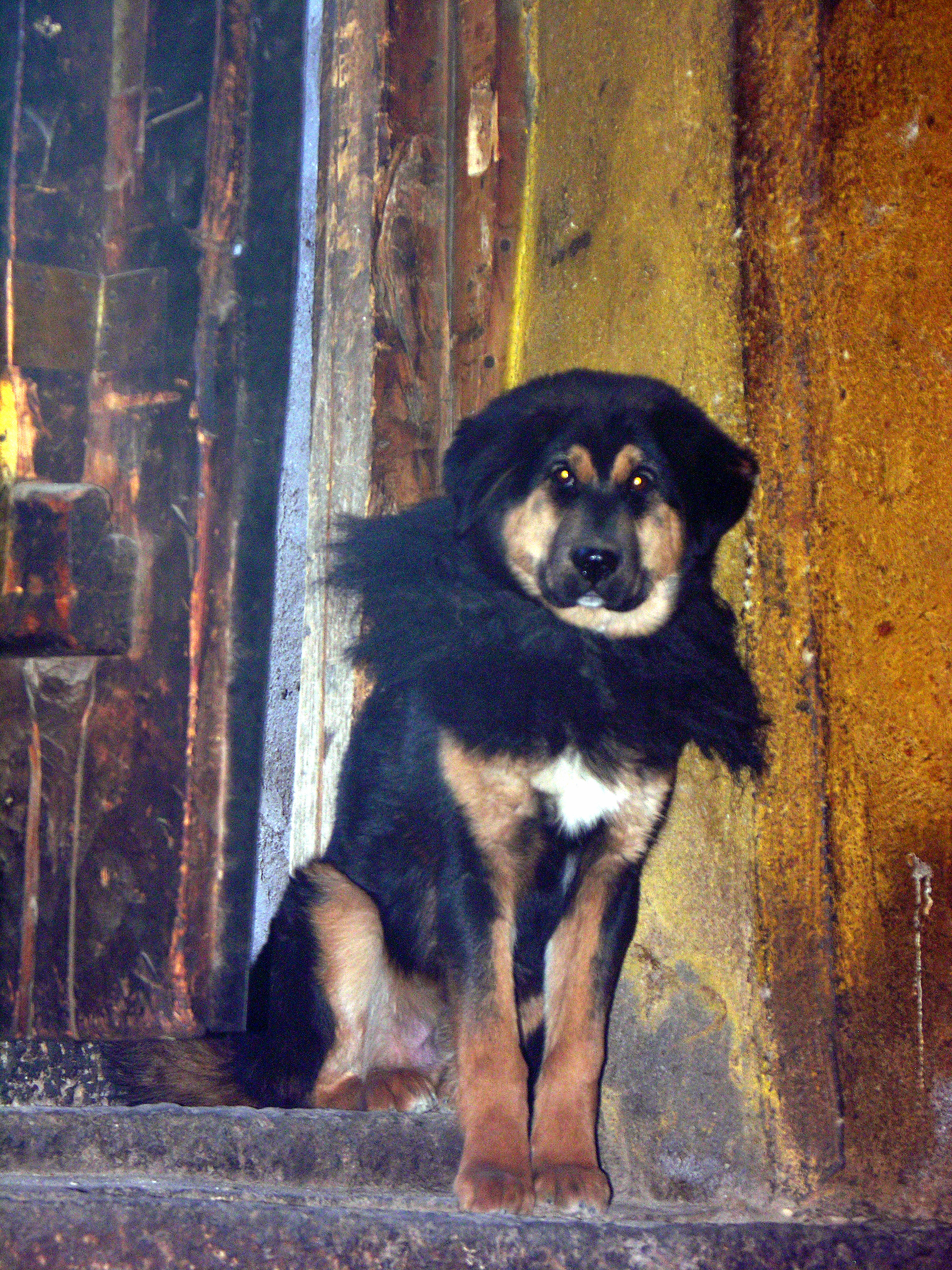 Guard dog (according to my guide) was in the kitchen but he seemed harmless. Depung Monastery. Lhasa, Tibet Tibet Dog is the most aggressive dog in the world. Its body weight ~70 kg, length ~4 feet and height over 2 feet. It has very sharp hearing and sight, its front foot has 5 claws and the back foot has 4 claws. The dog's teeth are very sharp. Tibet Dog is the only dog dares to fight with big animals like a Leopard or 3 wolfs and win the fight. No wonder Tibet Dog has the reputation of "Goddess Dog". On the world dog market, the price of an adult Tibet Dog is US Dollar $40,000. - 50,000. A baby Tibet Dog worth $5,000 - 10,000. Tibet Dog is the most faithful guard for its owner on the Tibetan Plateau. Tibetan people love and respect their dogs very much. They would never hurt any wild dogs. Tibet Dog is caution to strangers. When you meet it in Tibet, be careful don't touch it without the control of its owner.